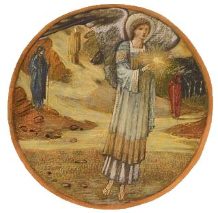 According to the Birmingham Museums website "A page from the facsimile edition of Burne-Jones' Flower Book, one of 38 watercolour designs reproduced by Henri Piazza et Cie, for the Fine Art Society, London in 1905." Flower referred to is "Star of Bethlehem"